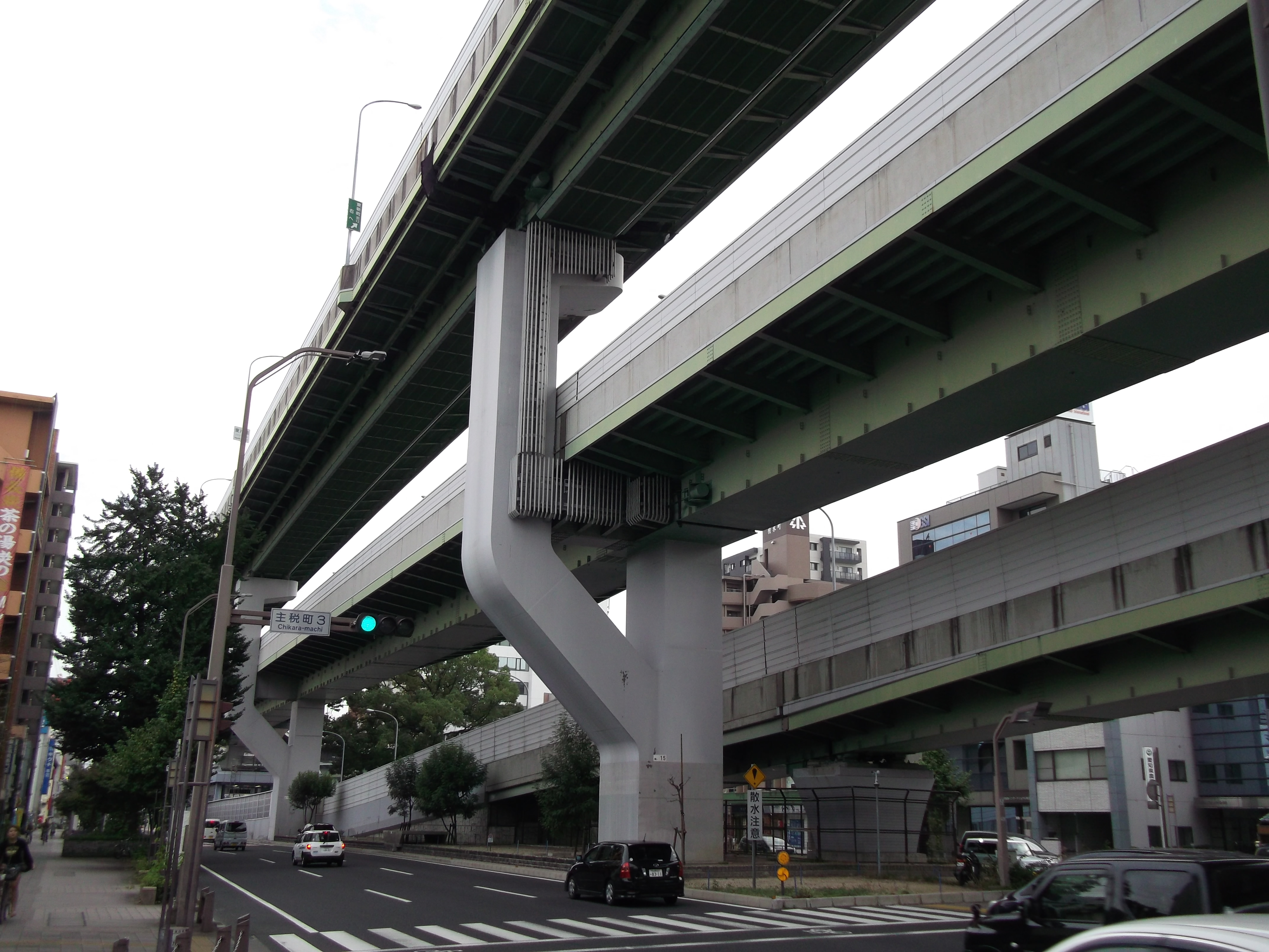 Higashikataha Interchange on the Nagoya Expressway Route 1 in Higashi-ku, Nagoya City